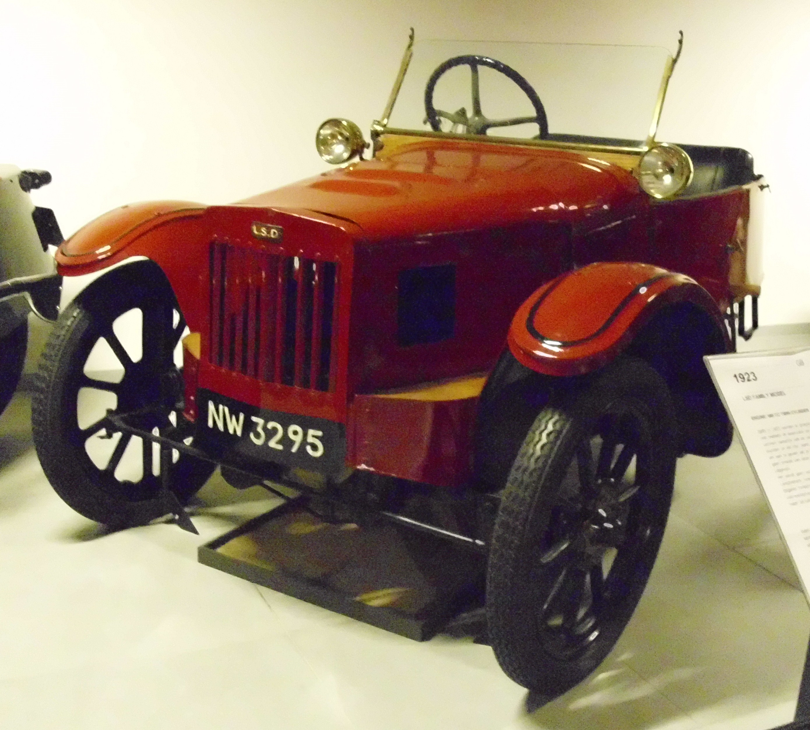 LSD Family 1923